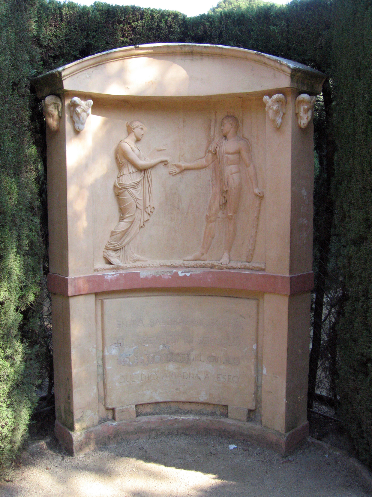 Relief of Ariadne and Theseus in the Parc del Laberint d’Horta in Barcelona, Catalonia (Spain).